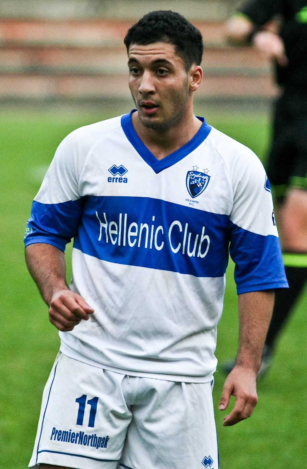 Tolgay Ozbey playing for Sydney Olympic against the Sydney Tigers in Round 13 of the 2009 New South Wales Premier League.